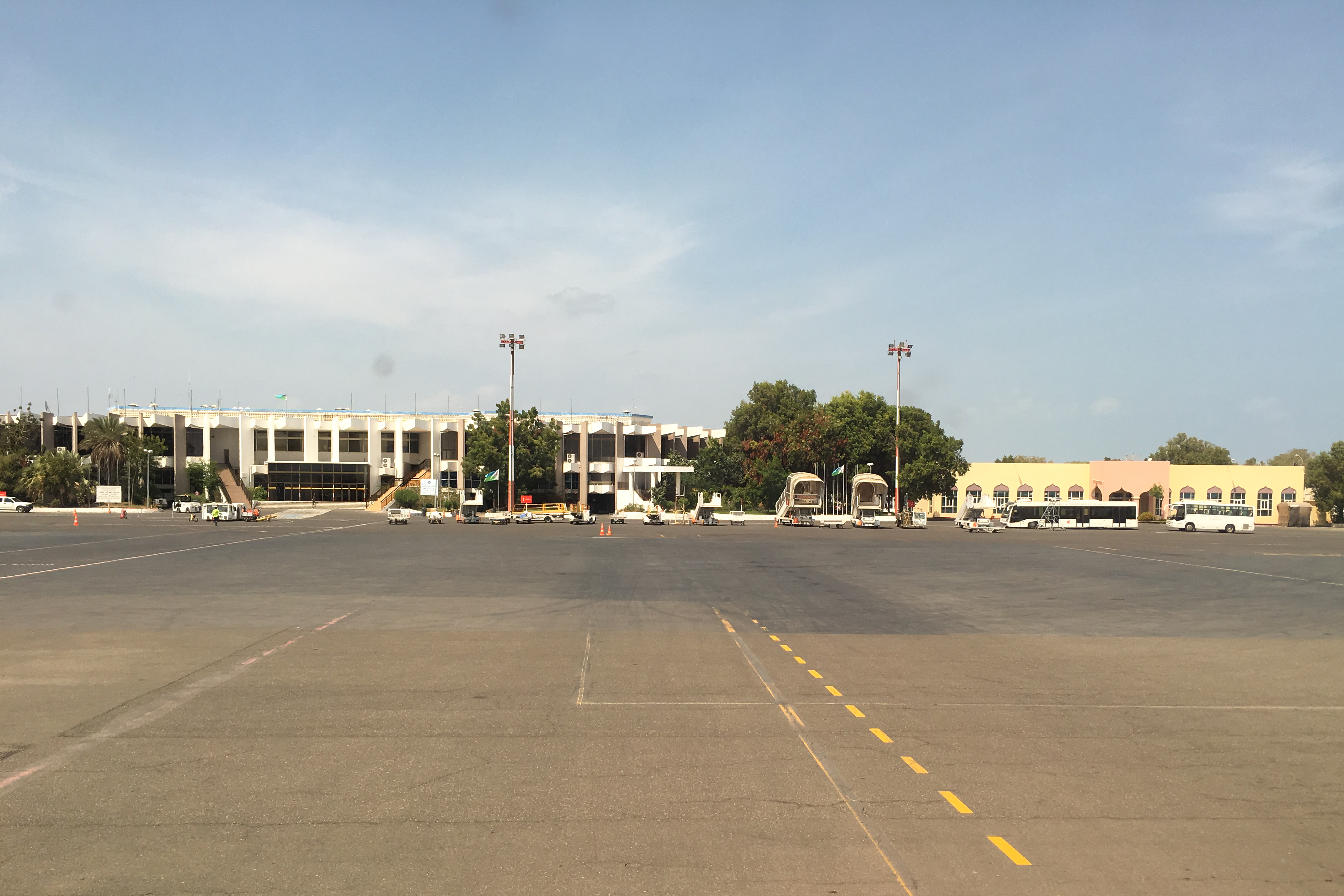 Djibouti–Ambouli International Airport